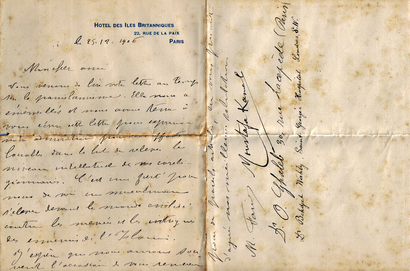 Letter from Mustafa Kamel Pacha to Abdeljelil Zaouche